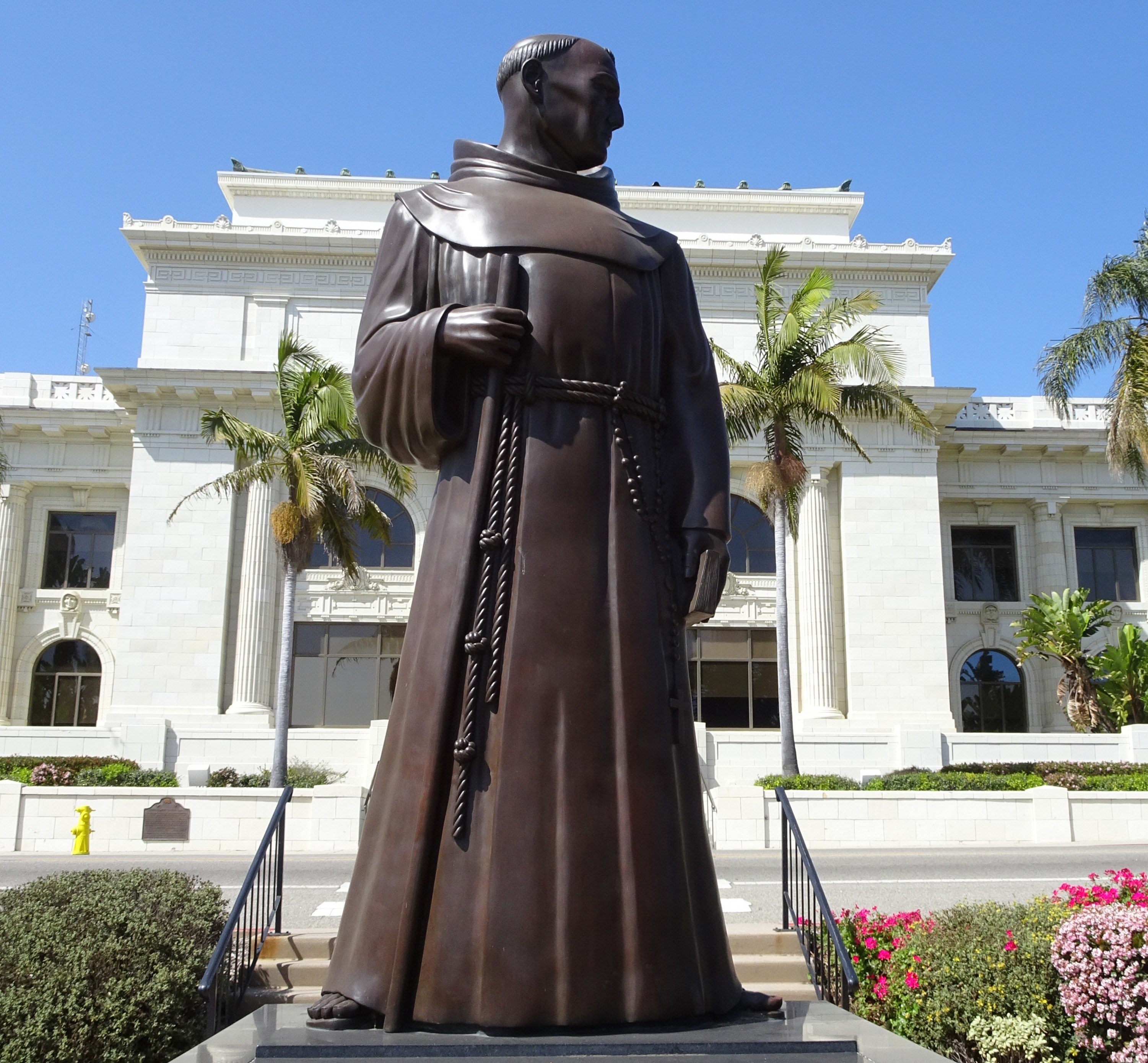 Father Serra statute, bronze cast, 1989